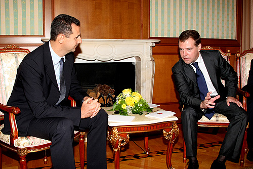 SOCHI. With President of Syria Bashar al-Assad.